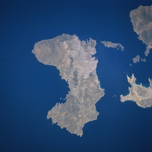 Chios, or Khios, Island, Greece Located in the eastern Aegean Sea just off the coast of western Turkey, the Greek island of Chios can be seen in this near-nadir view. Chios Island is 30 miles (48 km) long and 8 to 15 miles (13 to 24 km) wide and covers an area of 350 sq. miles (905 sq. km). The island is hilly, scenic, and fertile with a good climate. Chios produces olives, figs, and mastic and has marble quarries, lignite deposits, and sulfur springs. Chios is noted in antiquity for its claims as Homer's birthplace and for its school of epic poets, the Homeridae. The land visible at the right center and top right is part of the country of Turkey.